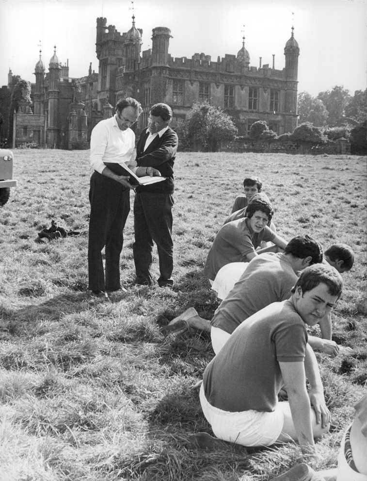 A scene from film "Decline and Fall of a Birdwatcher", produced by Ivan Foxwell from his own adaptions of Evelyn Waugh's first novel. It is directed by John Krish and starrs Geneviève Page, Leo McKern, Sir Donald Wolfit, Robert Harris, Colin Blakely, Patience Collier and John Sterndale Bennet. The plum role of Paul Pennyfeather goes to Robin Phillips.The picture represent the scene in which Robbin Phillips meets and falls under the spell of an immensely rich society beauty who visits the school at which he teaches on sports day.